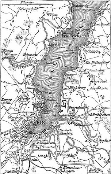 Historical map of the surrounding area of Kiel.